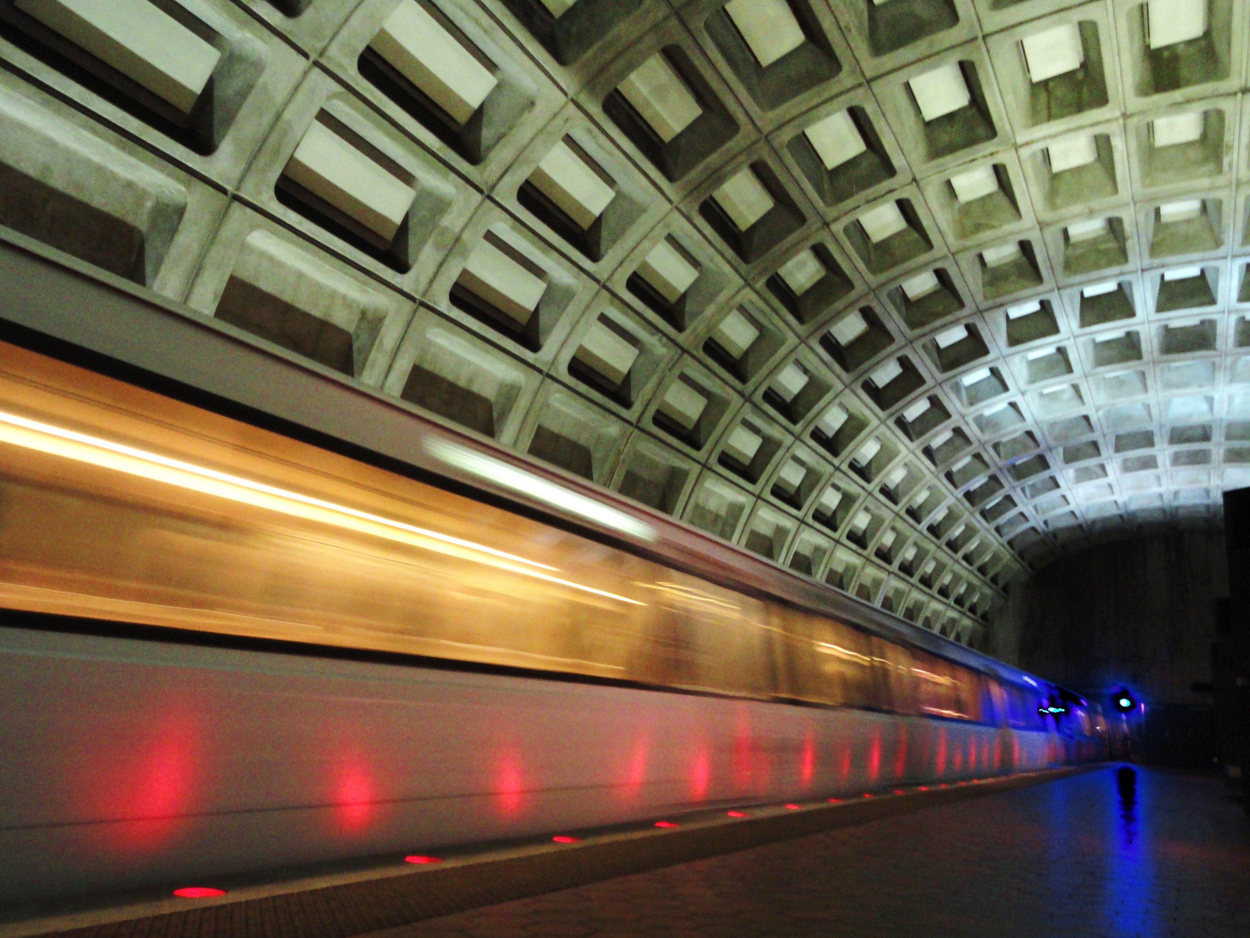 Metro Subway in Washington DC